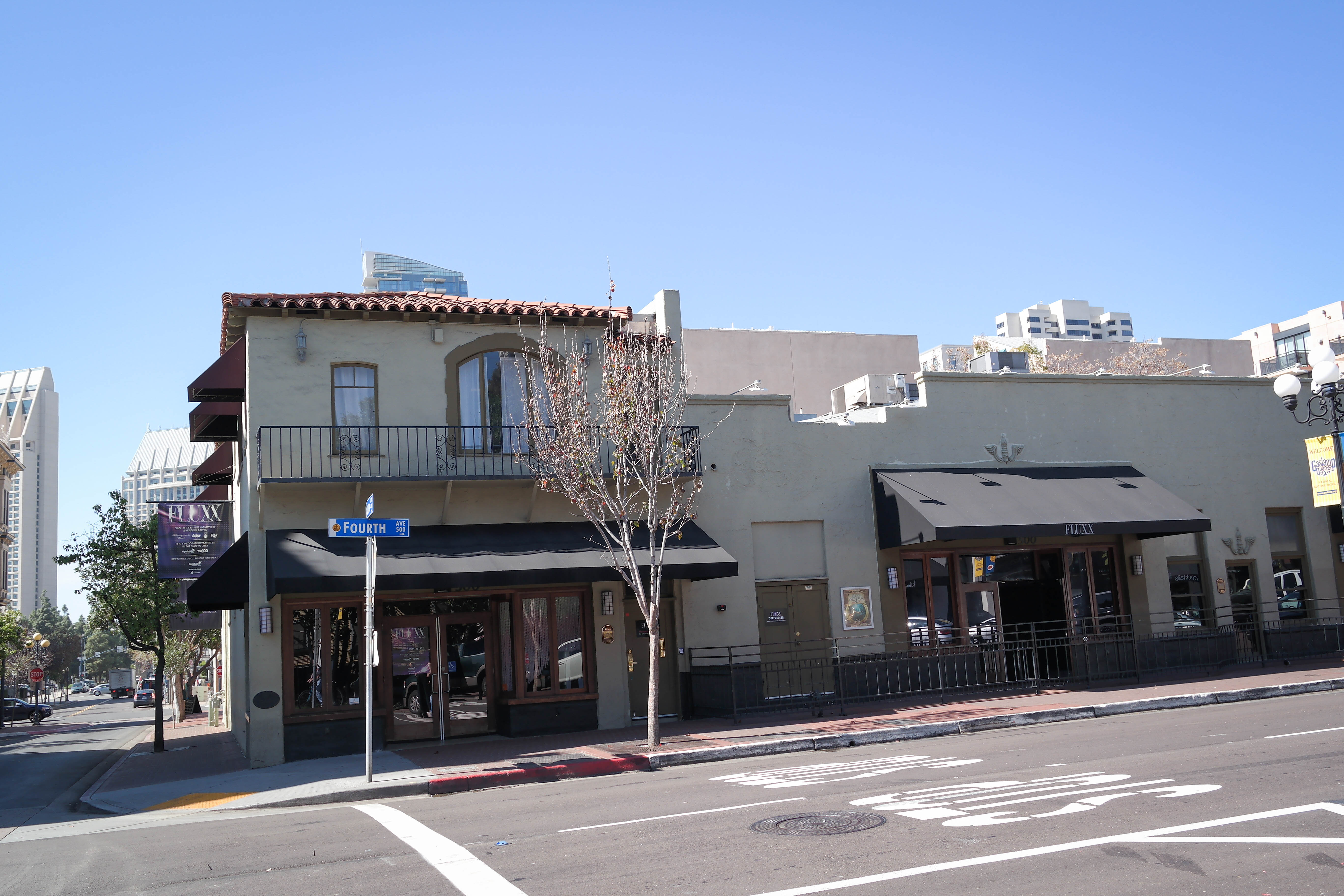 Historic Building Survey plaque: "6 Quin Building, 1930. In 1930, this Spanish Colonial Revival style structure was built in the heart of Chinatown for Thomas A. Quin. The top portion had two apartments, and the bottom floor was a combination storefront and storage space. Seven years after its construction, T.A. Quin passed away in one of the upstairs apartments. Thomas Quin was the son of Al Quin, Chinatown's founder and unofficial mayor. The Quin family is known as one of the most important Chinese families in San Diego's history."